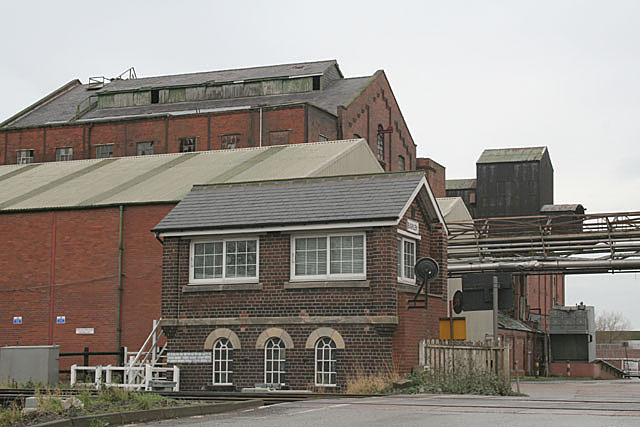 Barlby signal box The box is now officially a 'gate box' as it does not control any train movements; the grain processing plants are no longer rail served. I am grateful to John Whitaker for the following information: Barlby was opened as a signal box on the 6th November 1898.The original lifting or "pole" barriers were installed on the 27th July 1937. A very early use of such things. It became a gate box on the 22nd July 1972. The loops then being worked by Selby South. South then closed and the work was taken over by Selby West, which was then renamed Selby. This box now controls what is left of the Selby complex, giving releases to the Swing Bridge and Barlby.